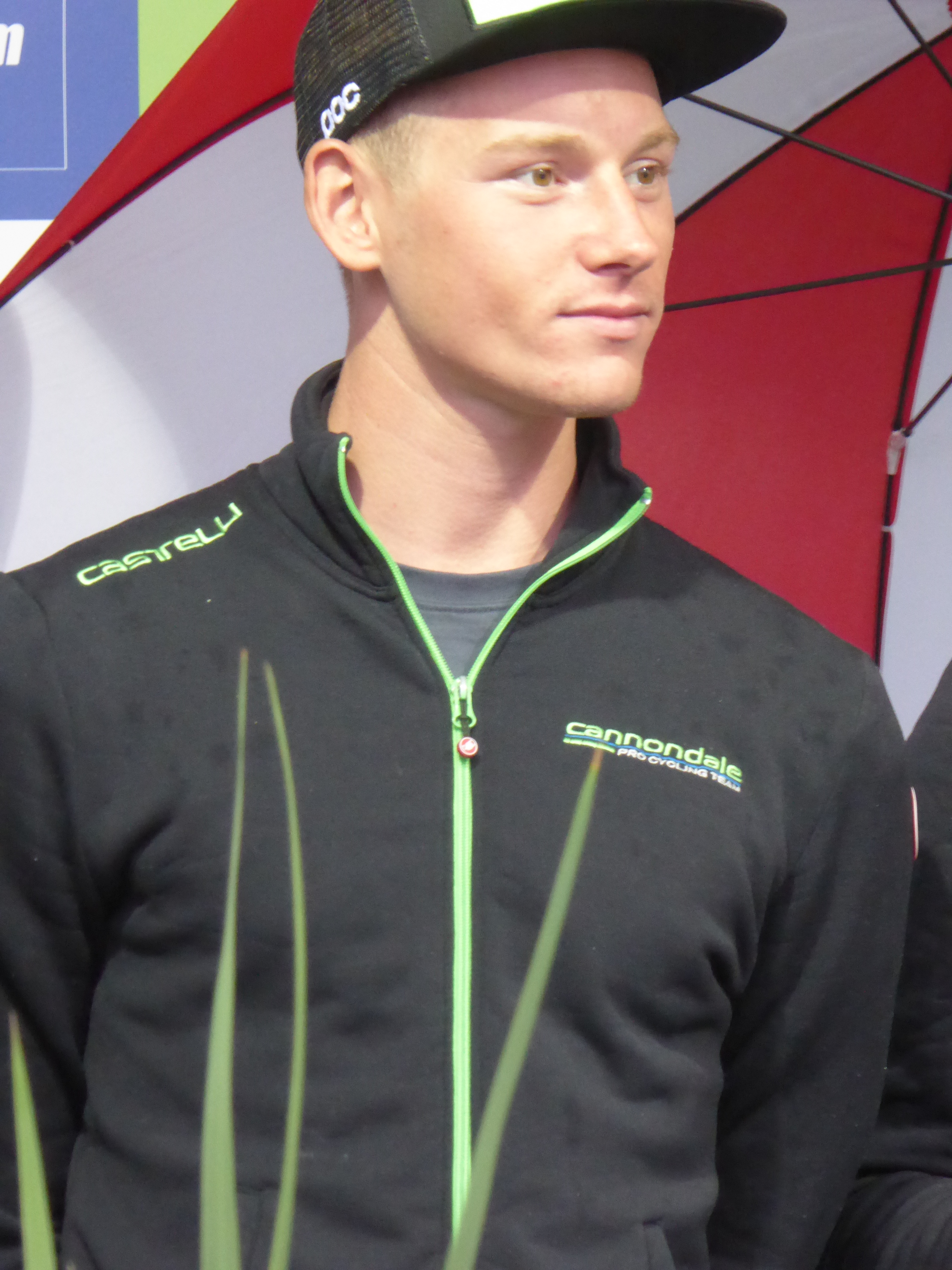 Ryan Mullen (Cannondale-Drapac), pictured at the 2016 Tour of Britain team presentation in Glasgow on 3 September 2016.